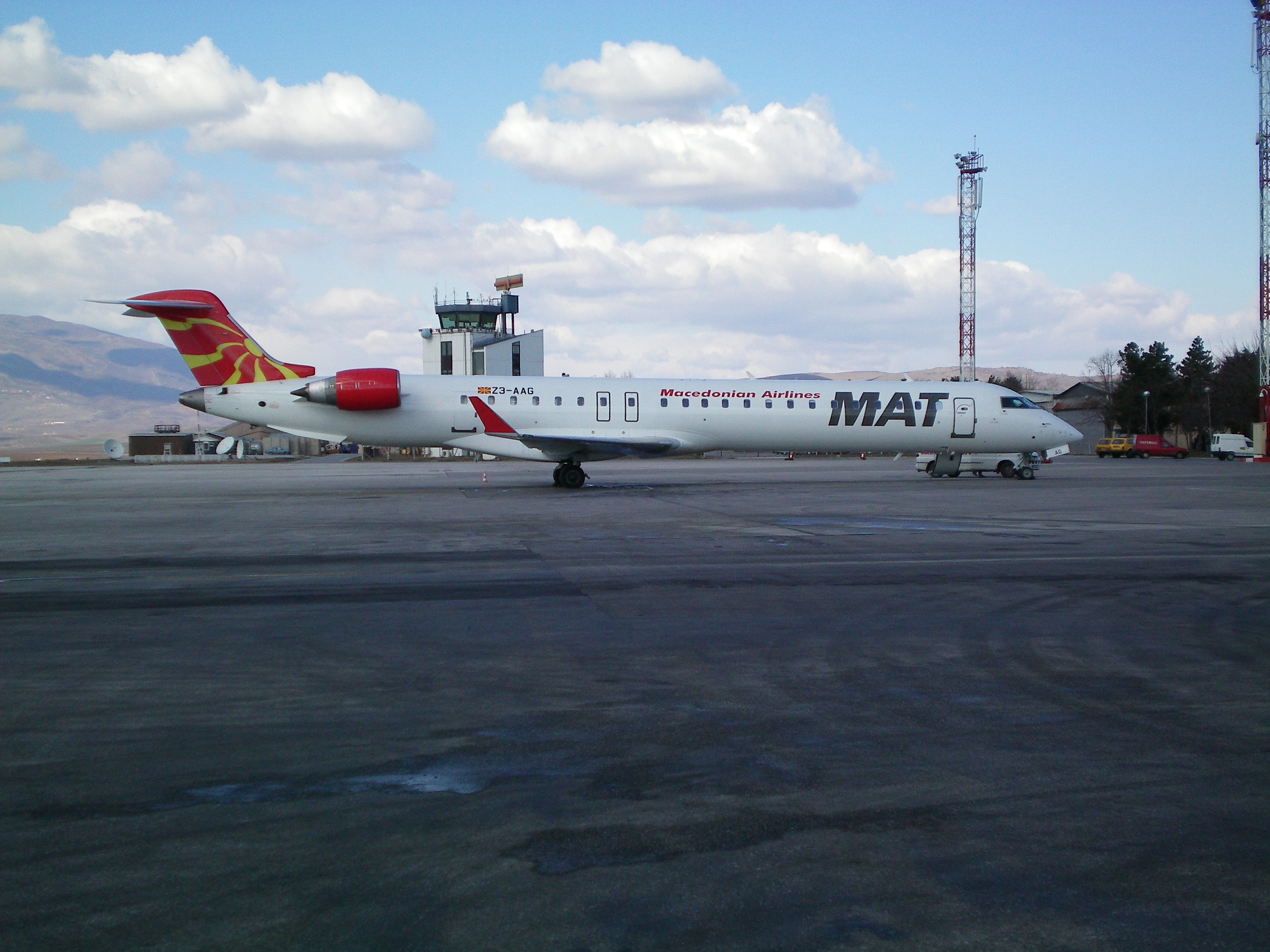 MAT Macedonian (Z3-AAG) on the platform of Skopje Airport "Alexander the Great"